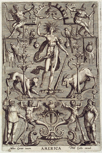 Philippe Galle, the father-in-law of Adriaen Collaert. Designed by Marcus Gheeraerts (or Geeraerts). The style suggests that it was Gheeraerts the Elder.